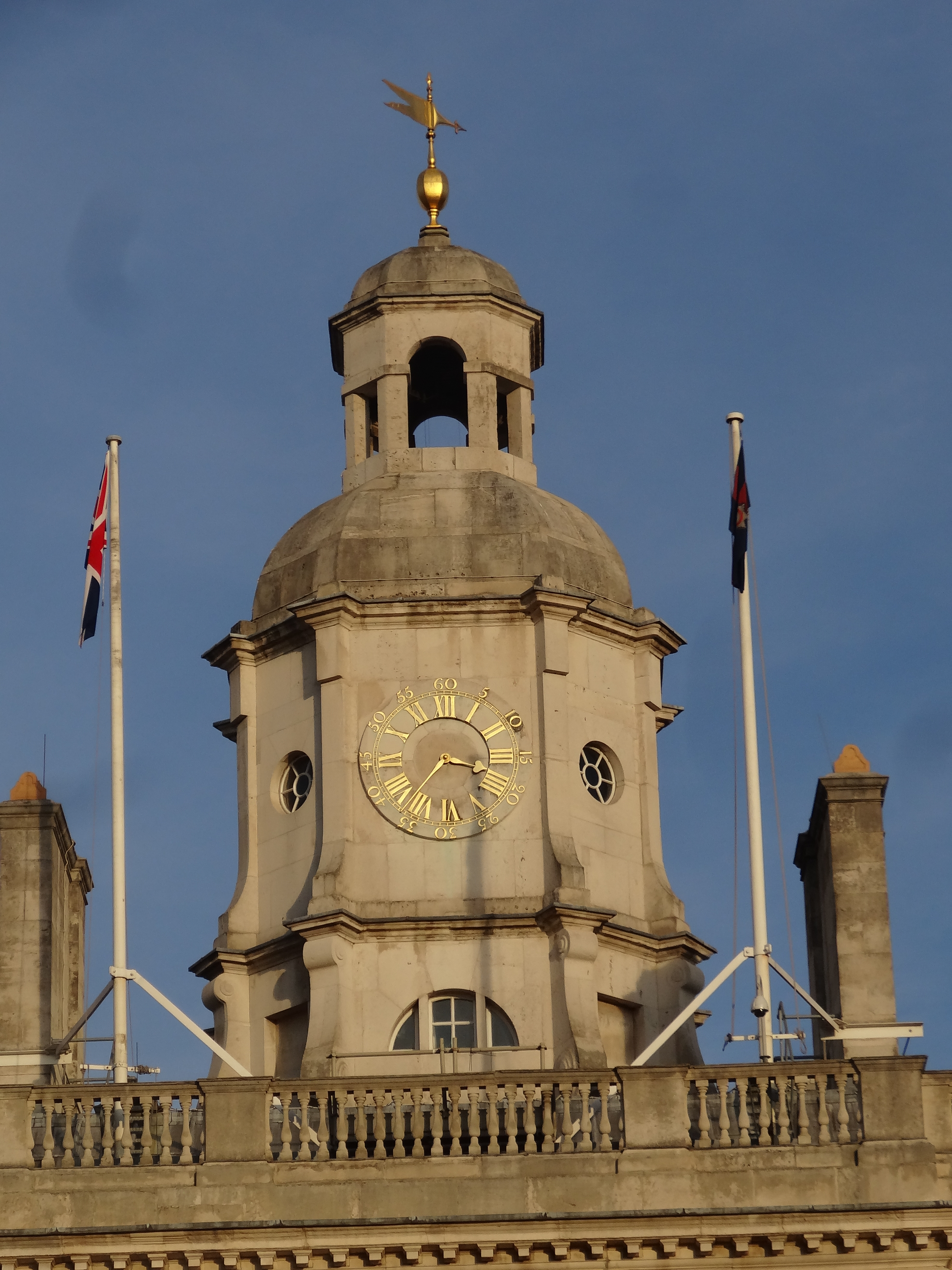 Horse Guards (building)